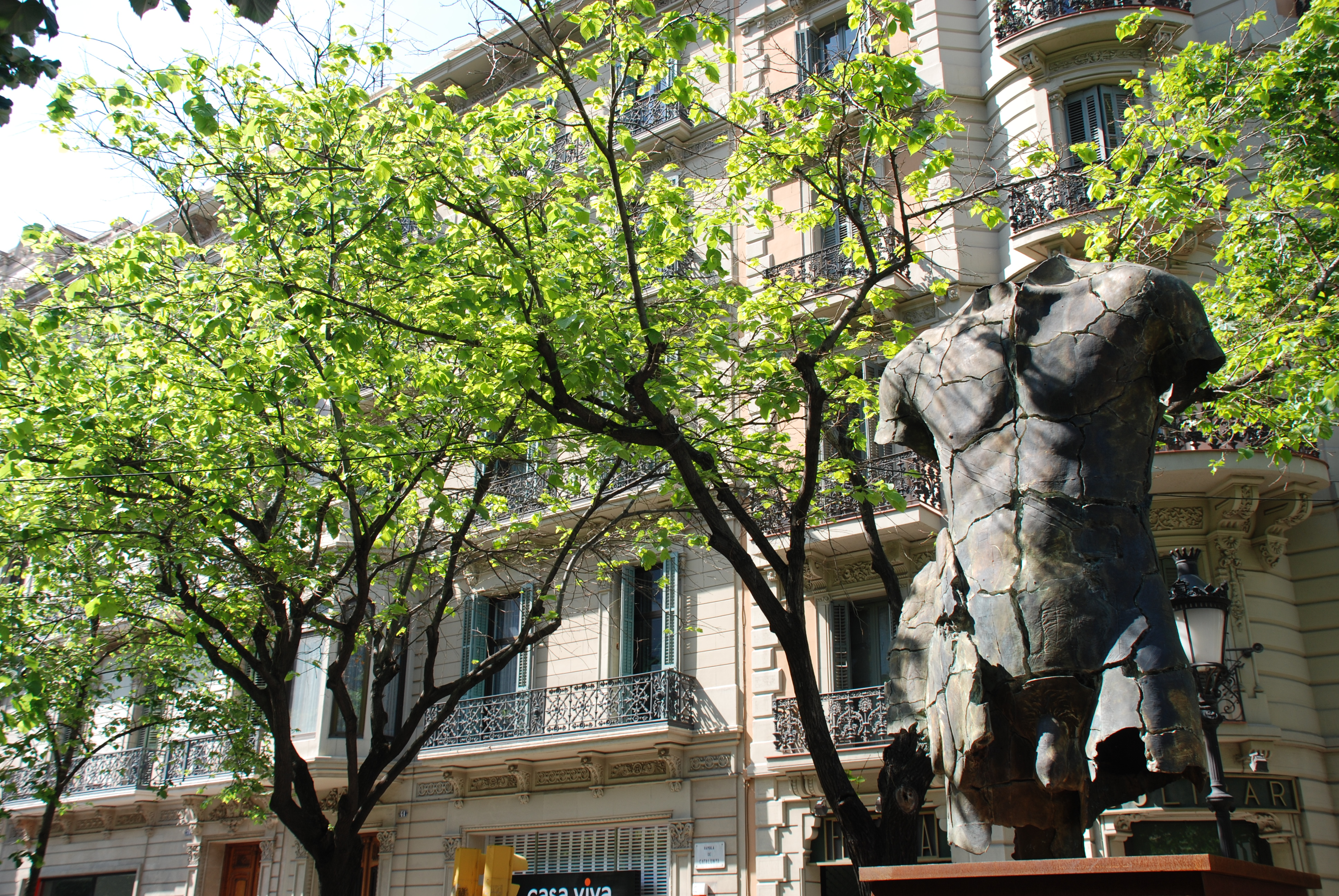 Exhibition of Igor Mitoraj in Barcelona, 2007.